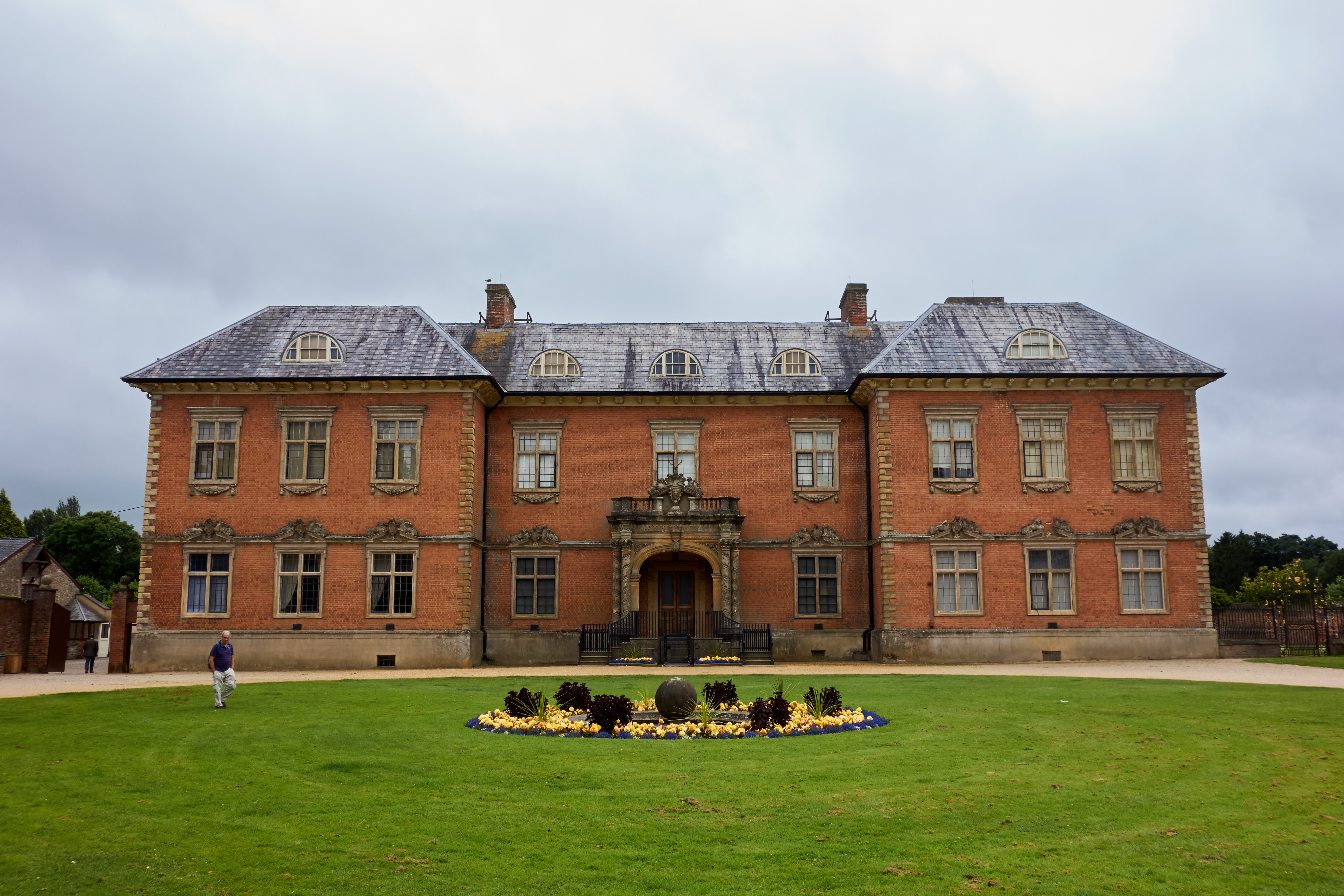 Tredegar House, external